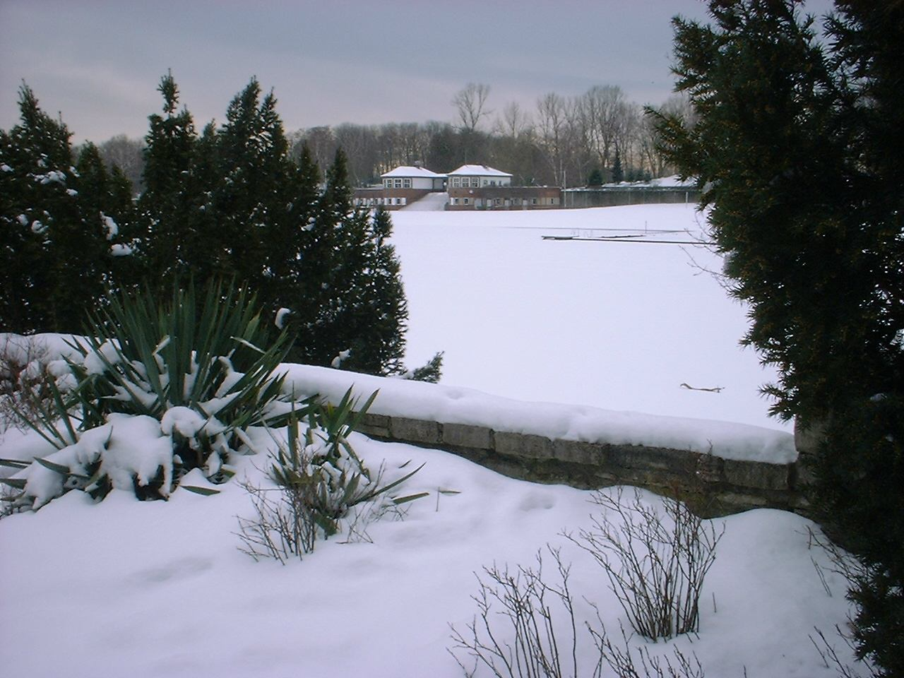 Plötzensee in Berlin-Wedding, Germany